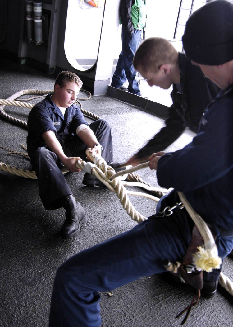 Pacific Ocean (Jan. 6, 2006) – Boatswain's Mate Seaman John Armstrong holds down a mooring line as other crew members tighten a new splice on the fantail aboard the Nimitz-class aircraft carrier USS Abraham Lincoln (CVN 72). Lincoln is underway off the coast of Southern California for an Inspection and Survey (INSURV) and the final Fleet Response Plan (FRP) readiness training before a scheduled deployment later this spring. U.S. Navy photo by Photographer's Mate Airman Apprentice James R. Evans (RELEASED)